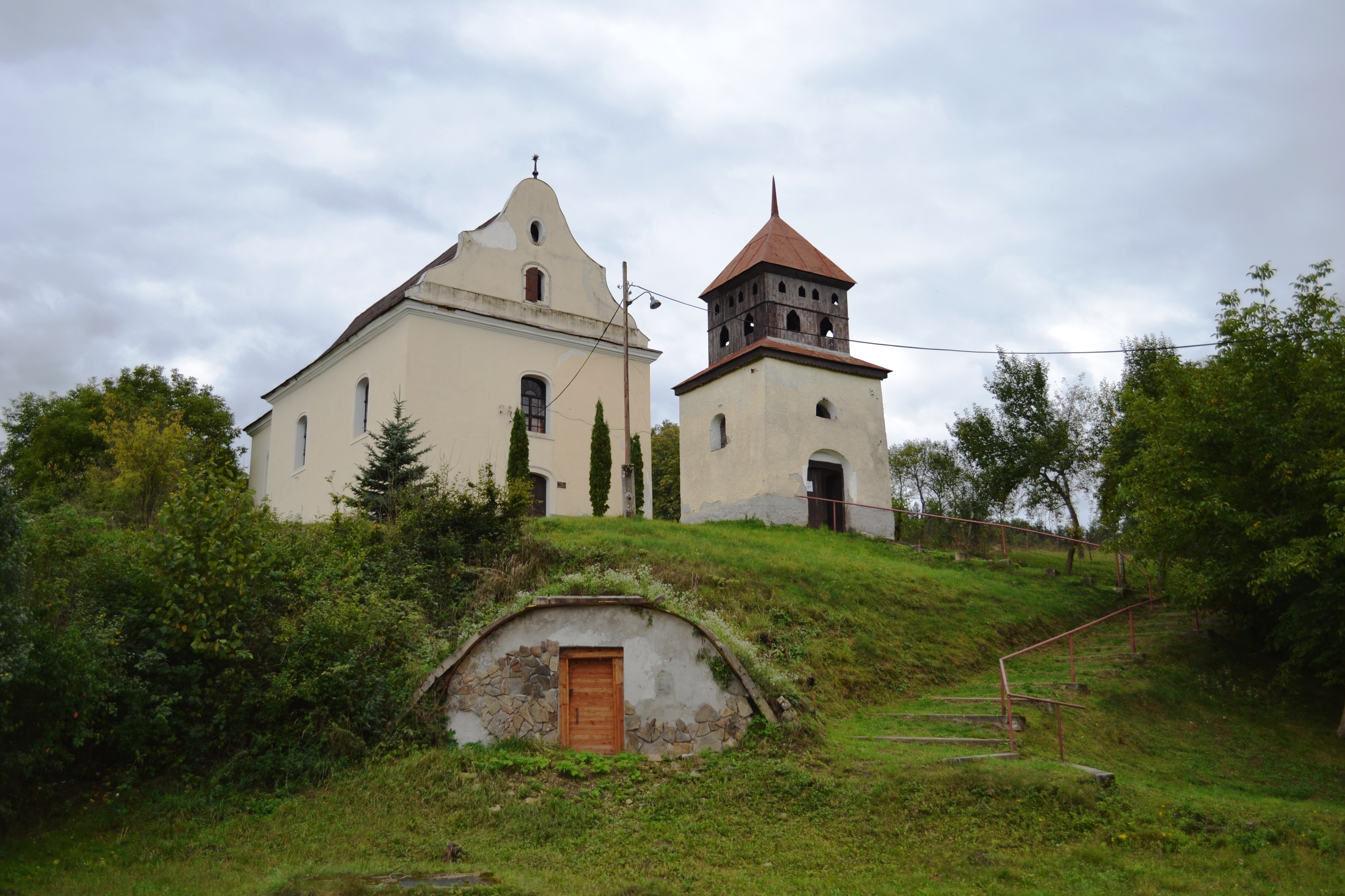 Evangelical Church and Belfry in SelceSlovenčina: Evanjelický kostol a zvonica v Selciach